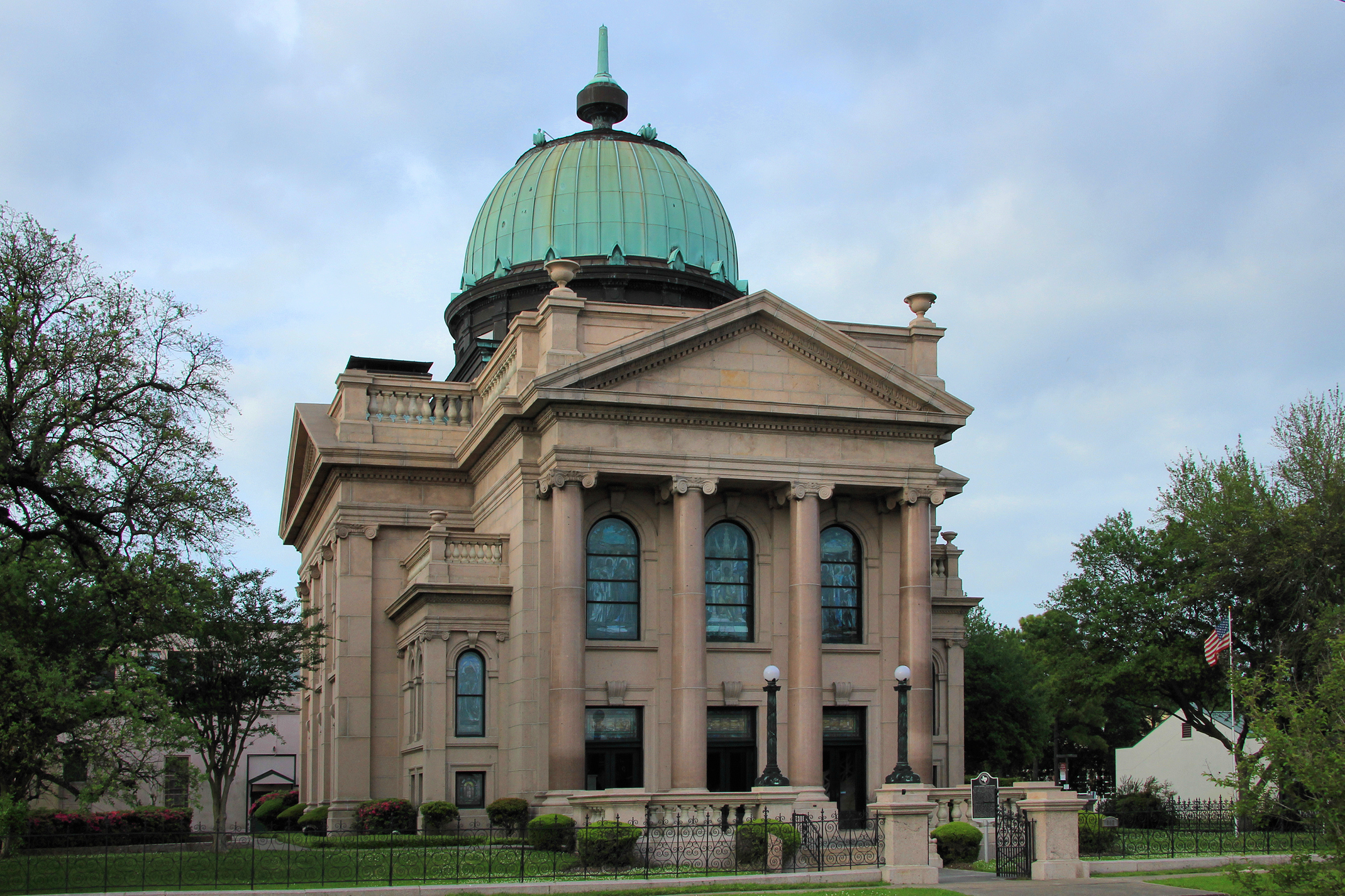 The Lutcher Memorial Church is home to the First Presbyterian Church of Orange, Orange, Texas, United States. The building was designated a Recorded Texas Historic Landmark in 1978 and listed on the National Register of Historic Places on September 9, 1982.